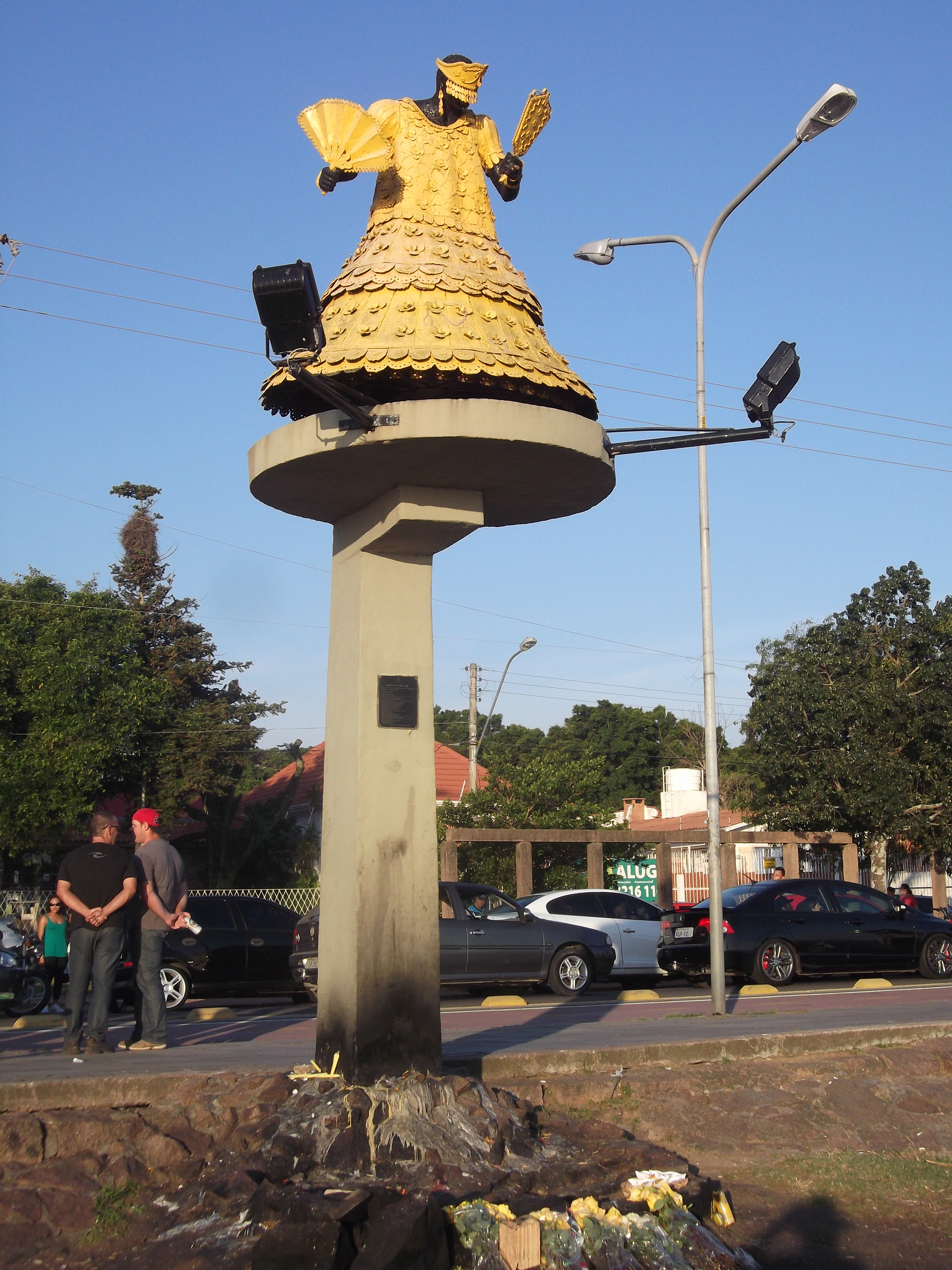 Statue of Oxum at Ipanema, Porto Alegre, Rio Grande do Sul, Brazil